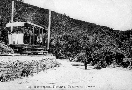 Tramstop Proval in Pyatigorsk (Russia).